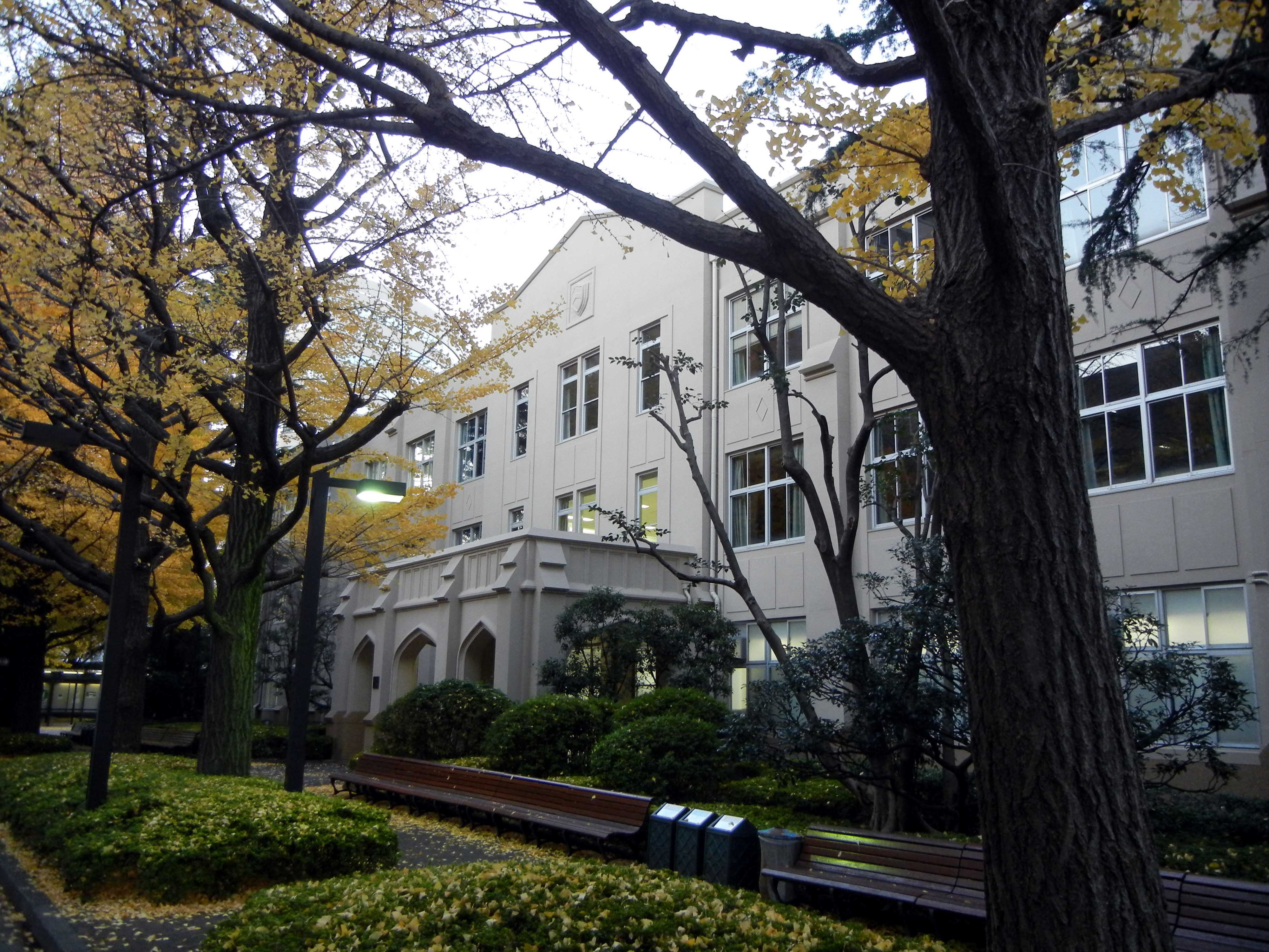 Aoyama Gakuin Aoyama Campus building number 1